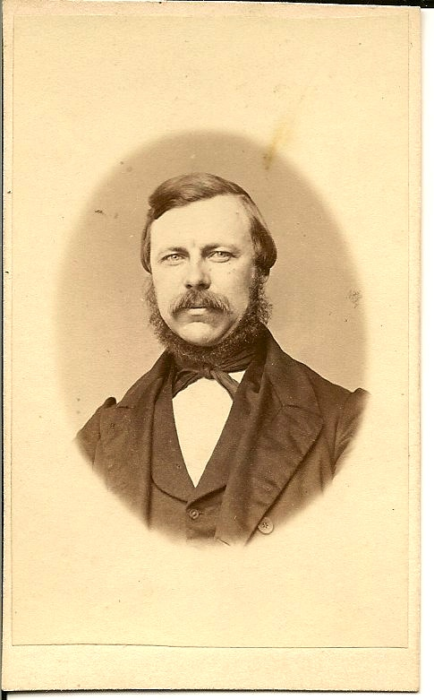 Swedish politician from late nineteenth century